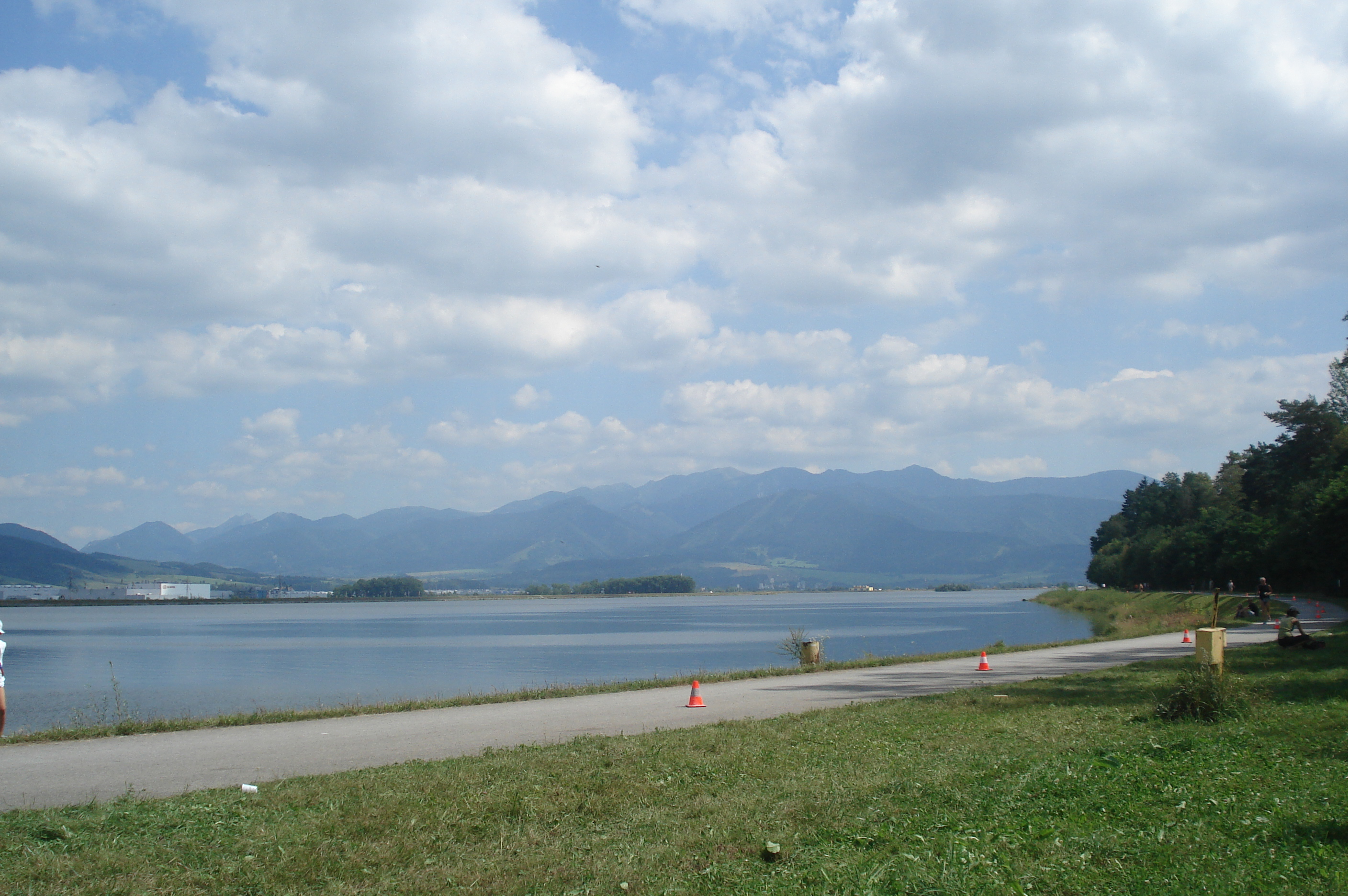 Žilina Reservoir